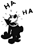 Felix The Cat (detail). A scene of Felix "laffing" from "Felix in Hollywood" (1923). Transparent background and sharpened.